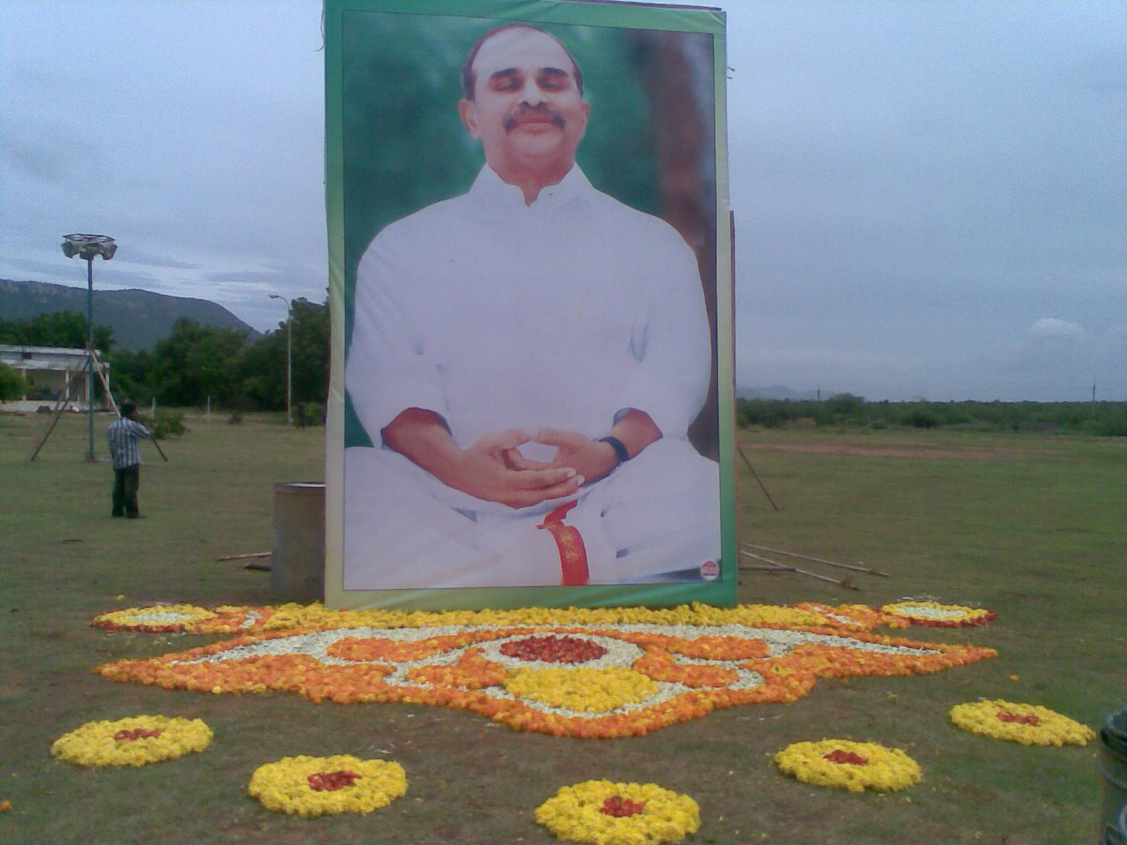 Y.S.RajasekharReddy Smrtyanjali at Udayagiri, Nelllore (dt), A.P. INDIA